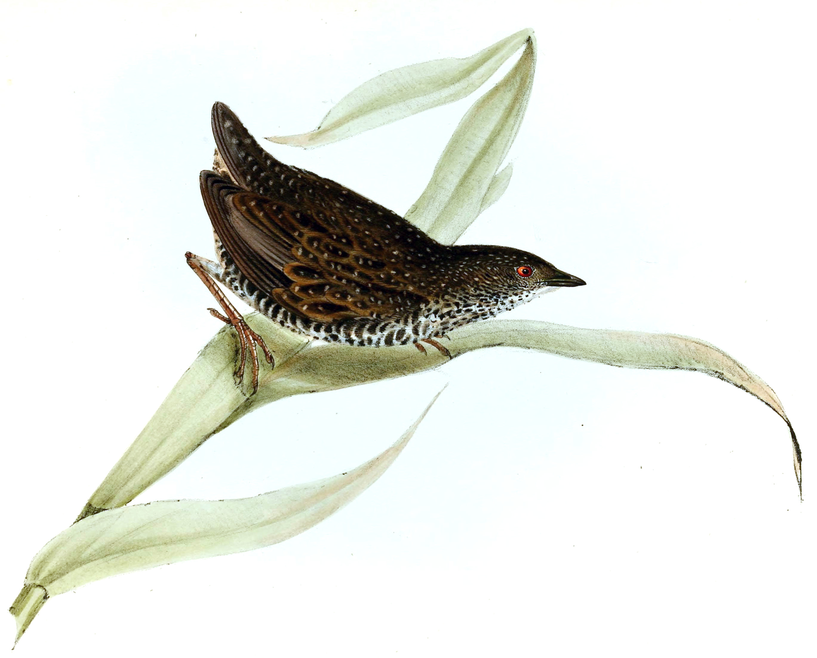 (Coturnicops notata notata (Gould, 1841)) (Original description: Zapornia notata explanation for modern name here)